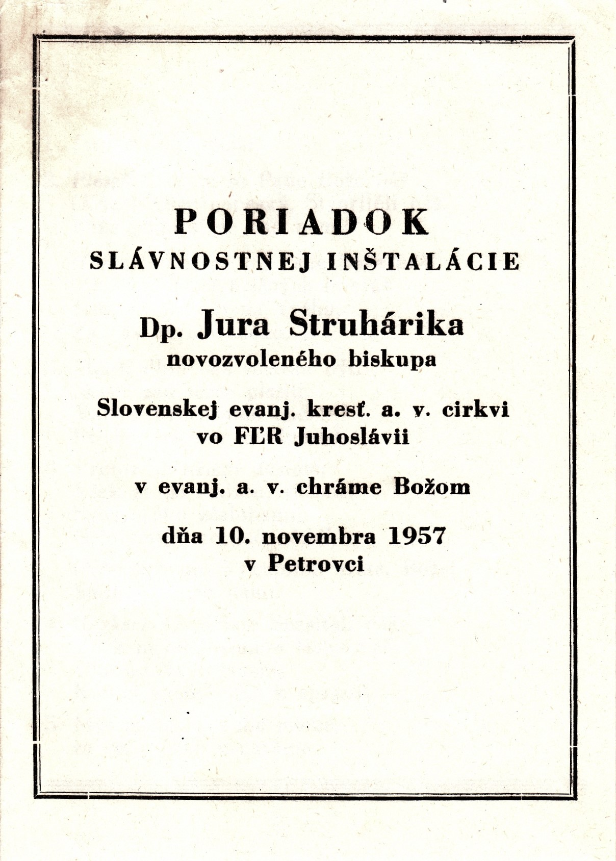 Program of the ceremonial installation of Slovak Evangelical Church of the Augsburg confession in Yugoslavia Bishop Juraj Struhárik (Bački Petrovac, 1957). Inventory number 2212. Srpski (latinica): Program svečane instalacije biskupa Slovačke evangeličke crkve augsburške veroispovesti u Jugoslaviji Juraja Struharika (Bački Petrovac, 1957). Inventarski broj 2212.